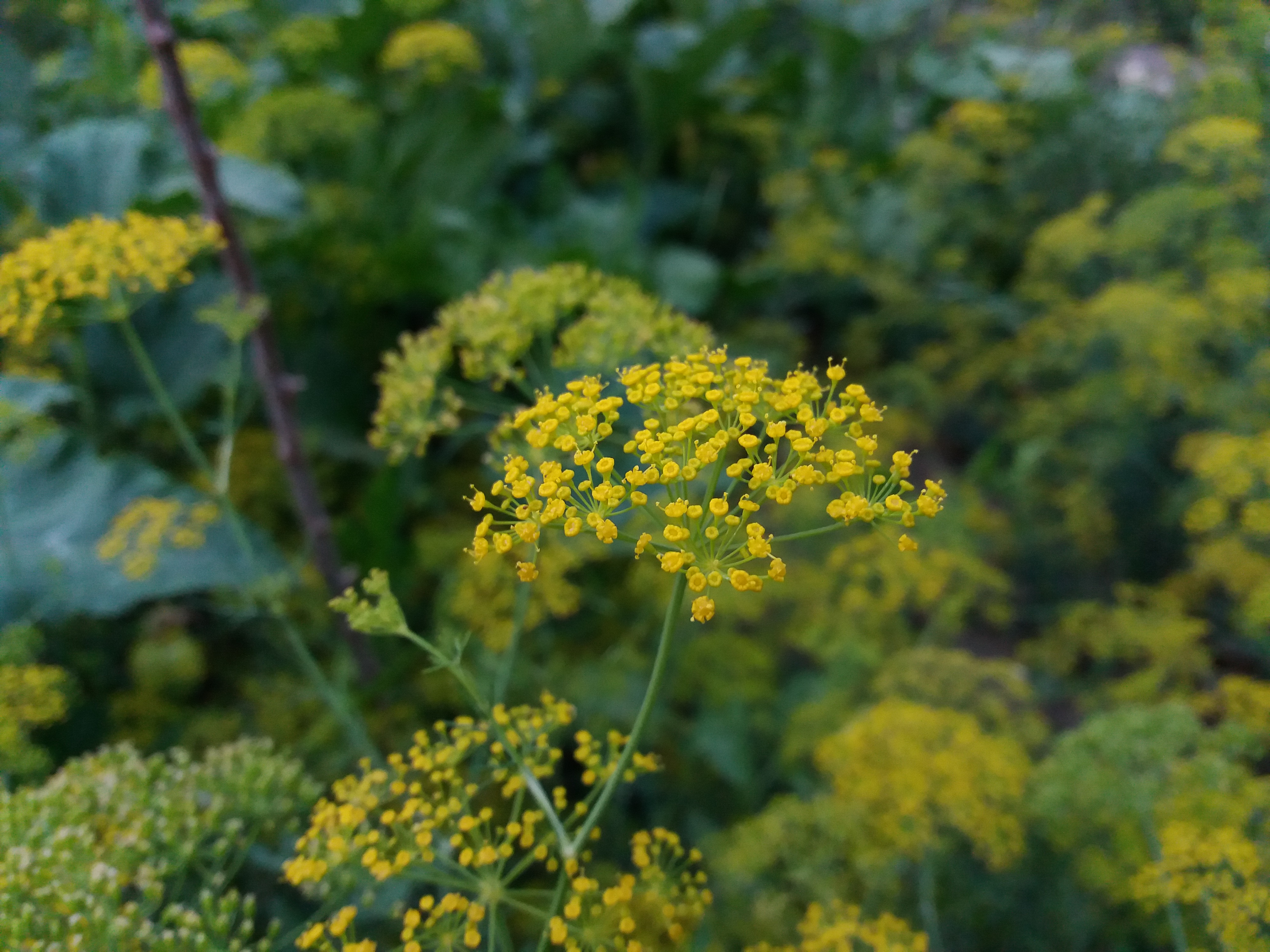 گل در روستای شنگل آباد